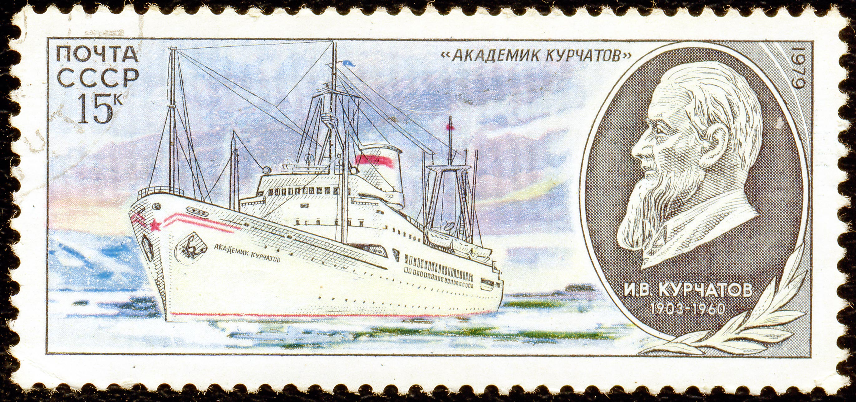 Stamp of USSR, 1979. Academician Kurchatov, soviet research vehicle, portrait of I. V. Kurchatov